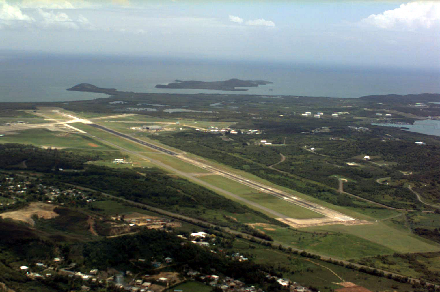 Aerial view of the ramp space, taxiways and surrounding areas of the U.S. Naval Air Station Roosevelt Roads, Puerto Rico, during "Phoenix Shark", a U.S. Air Force Air Mobility Command exercise on 14 September 1994.